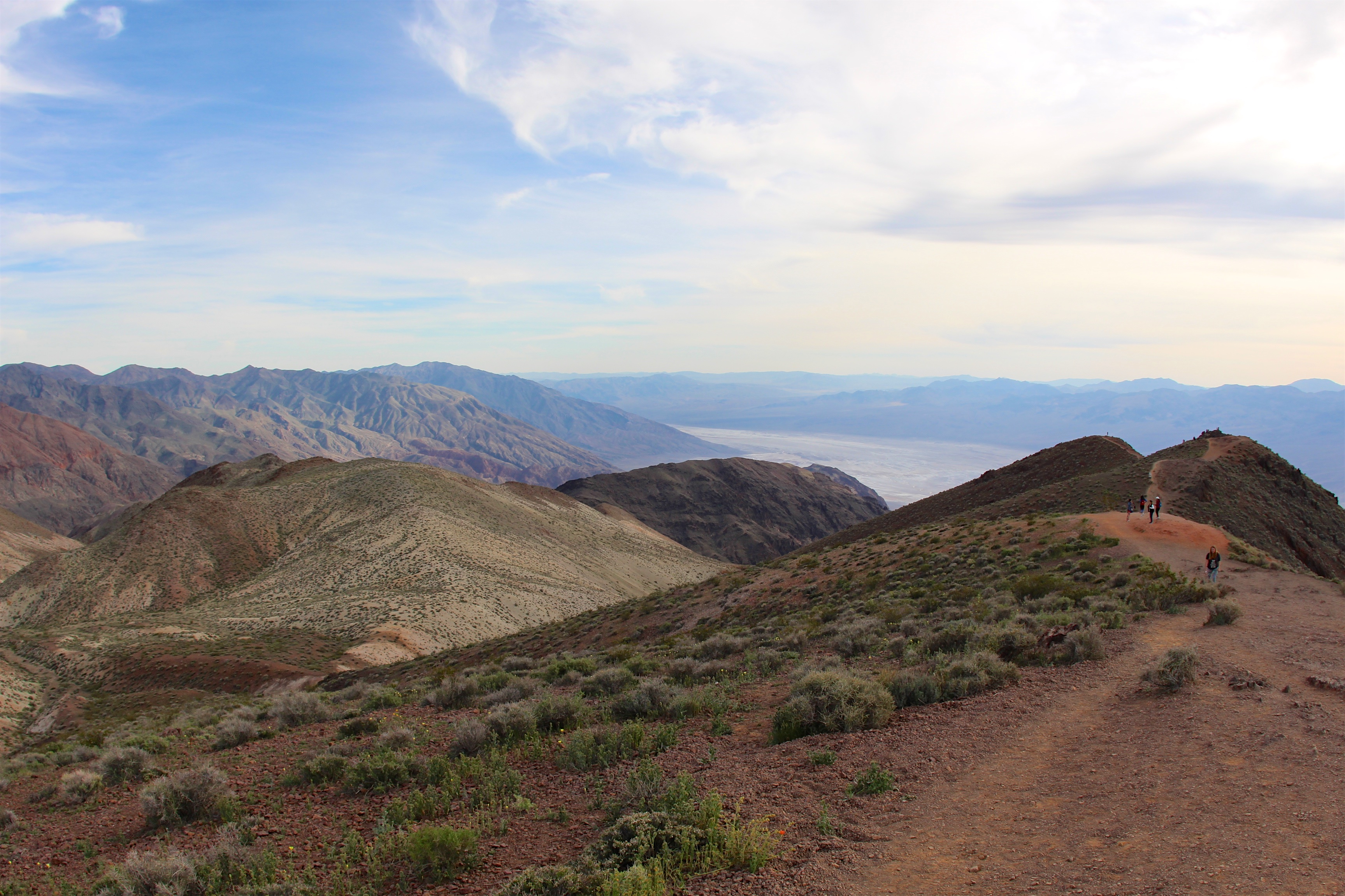 This image is of the view that a photographer, daveynin, had while walking Greenwater valley.